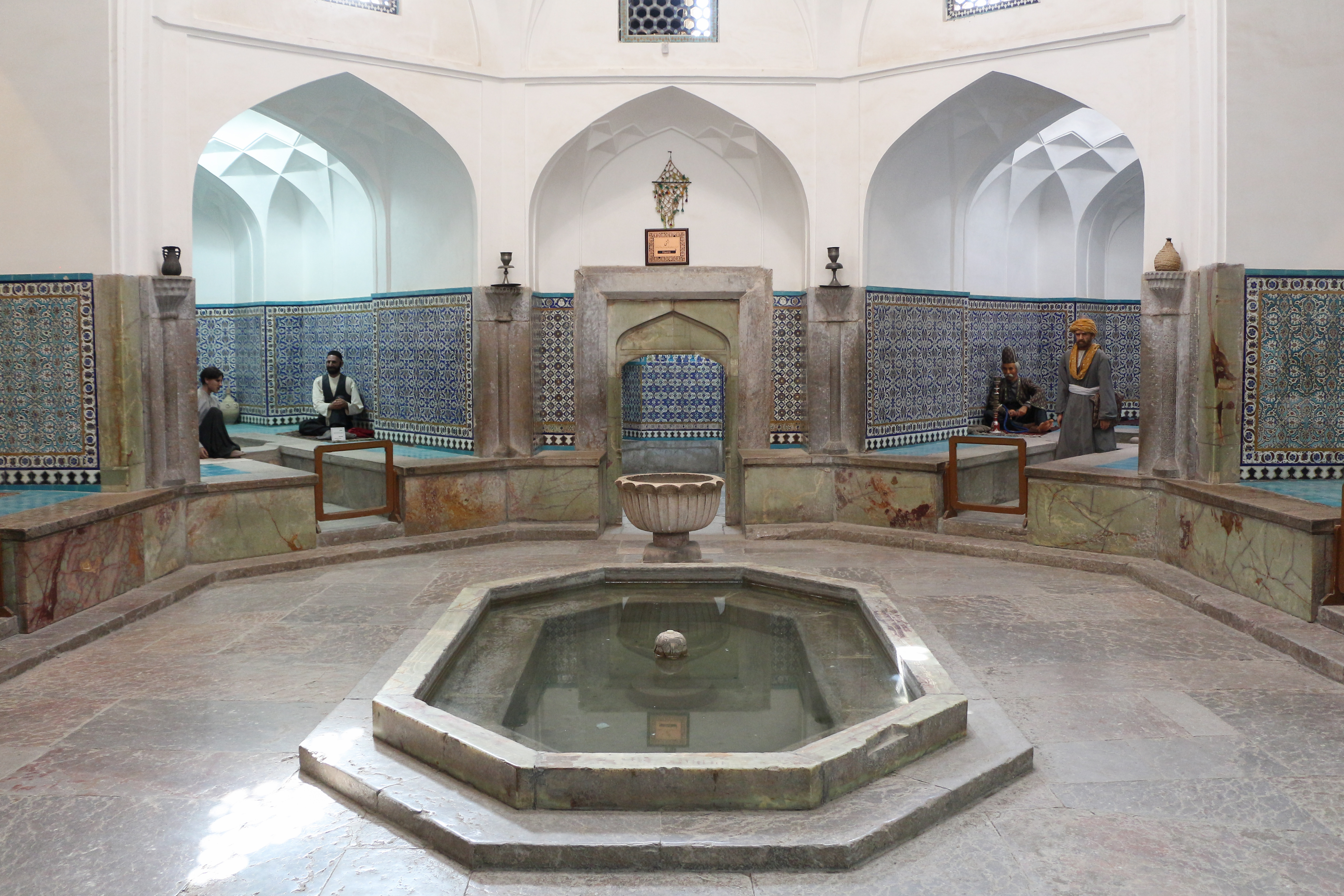 Ganjali Khan Bathhouse, Kerman, Iran